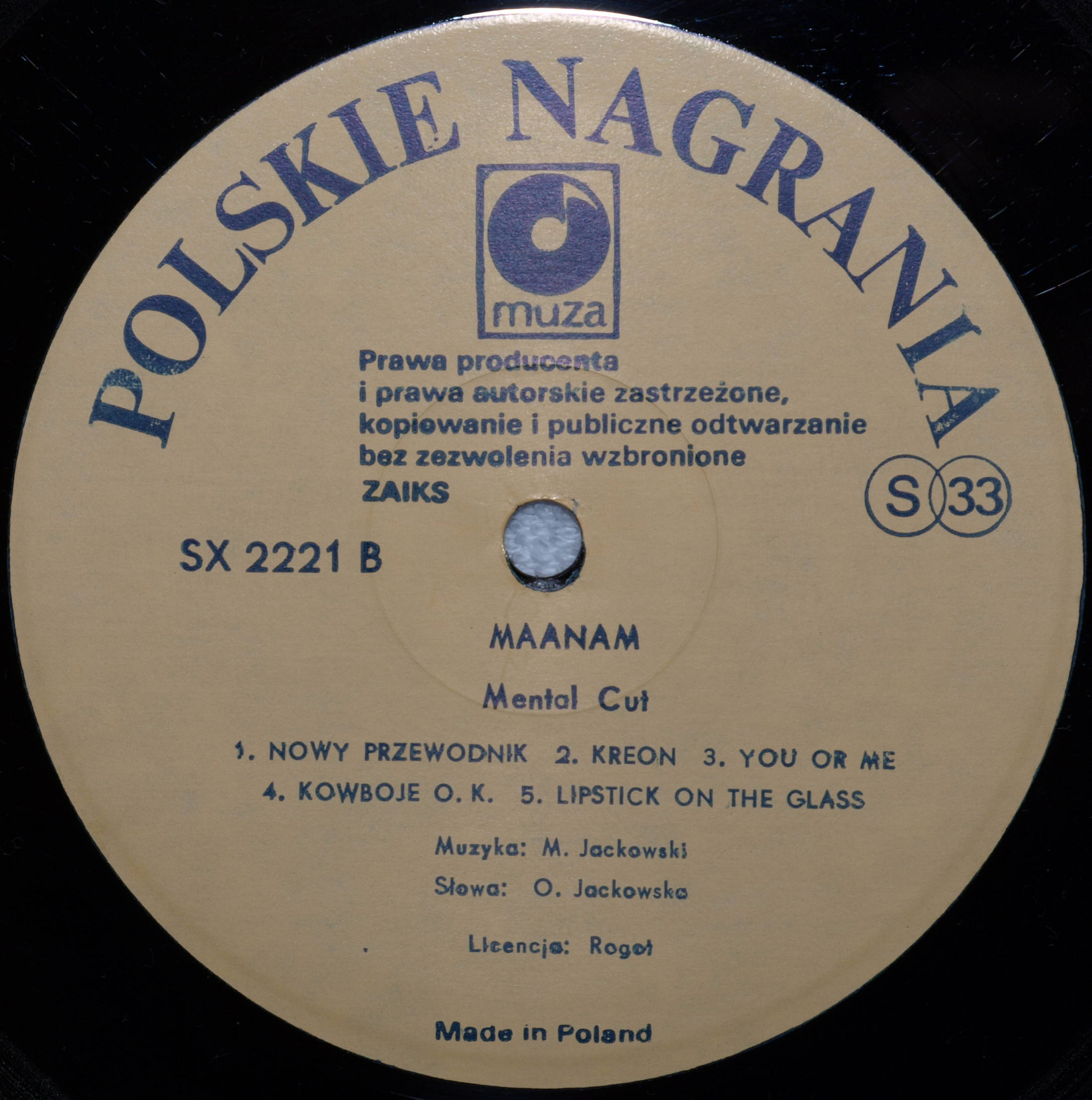 "Mental Cut" – Winyl Long Play Polskie Nagrania SX 2221 Label side B.